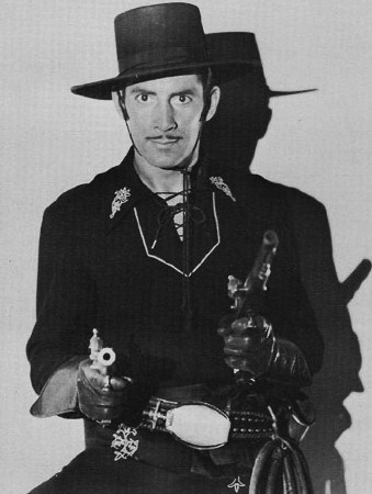 Reed Hadley in Zorro's Fighting Legion - publicity still (cropped)